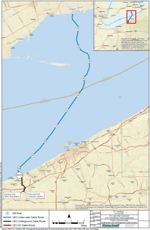 Route of the Lake Erie Connector.